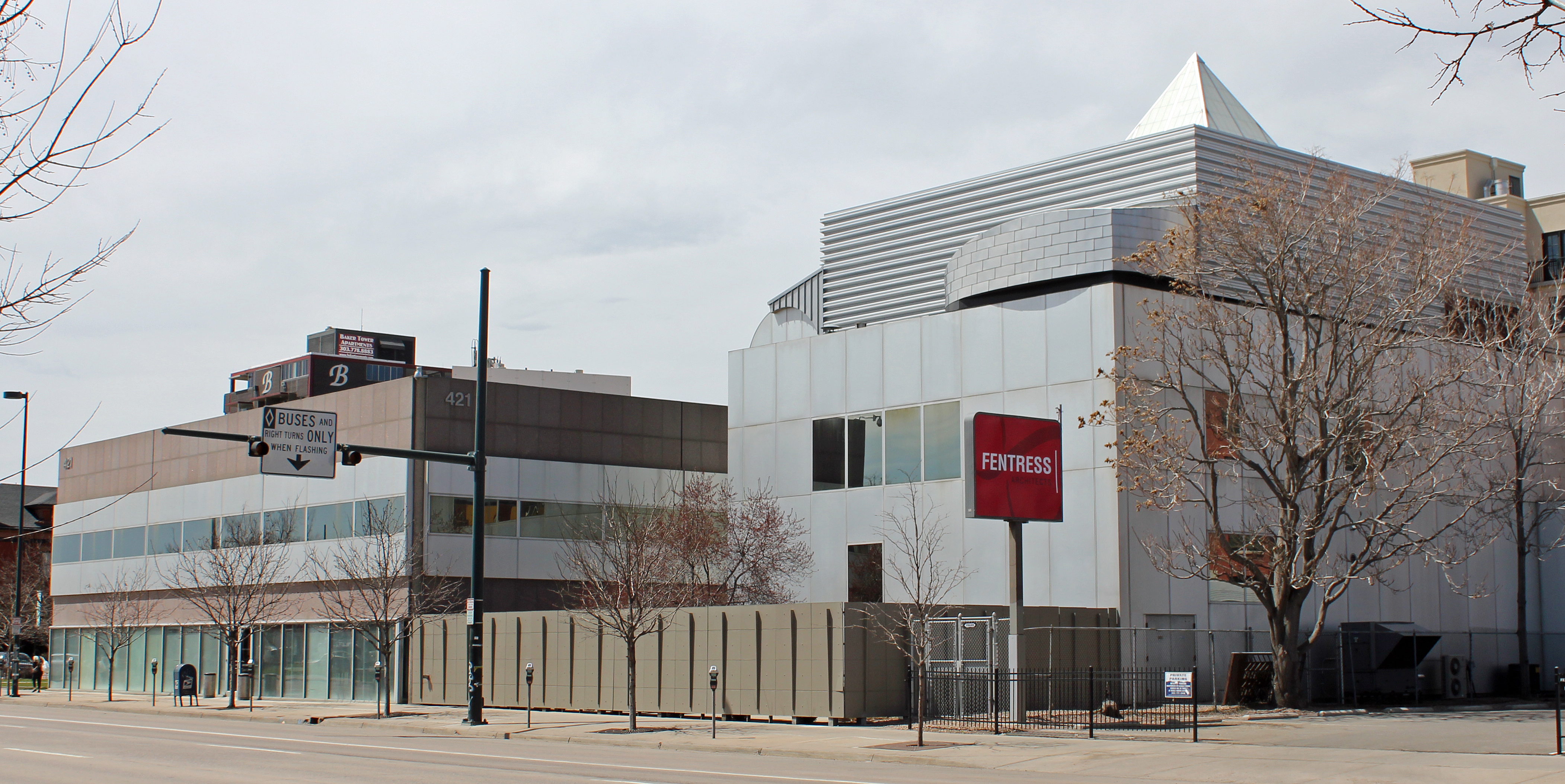 Fentress Architects, located at 421 Broadway in Denver, Colorado.